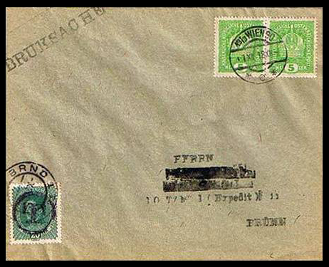 Cover sent in 1918 from Vienna 90 (District 13, Breitensee) with a 5 heller pair, issue 1916, to Brno (Moravia) with additional 20 h franking issue 1917 and a T for Tax postmark